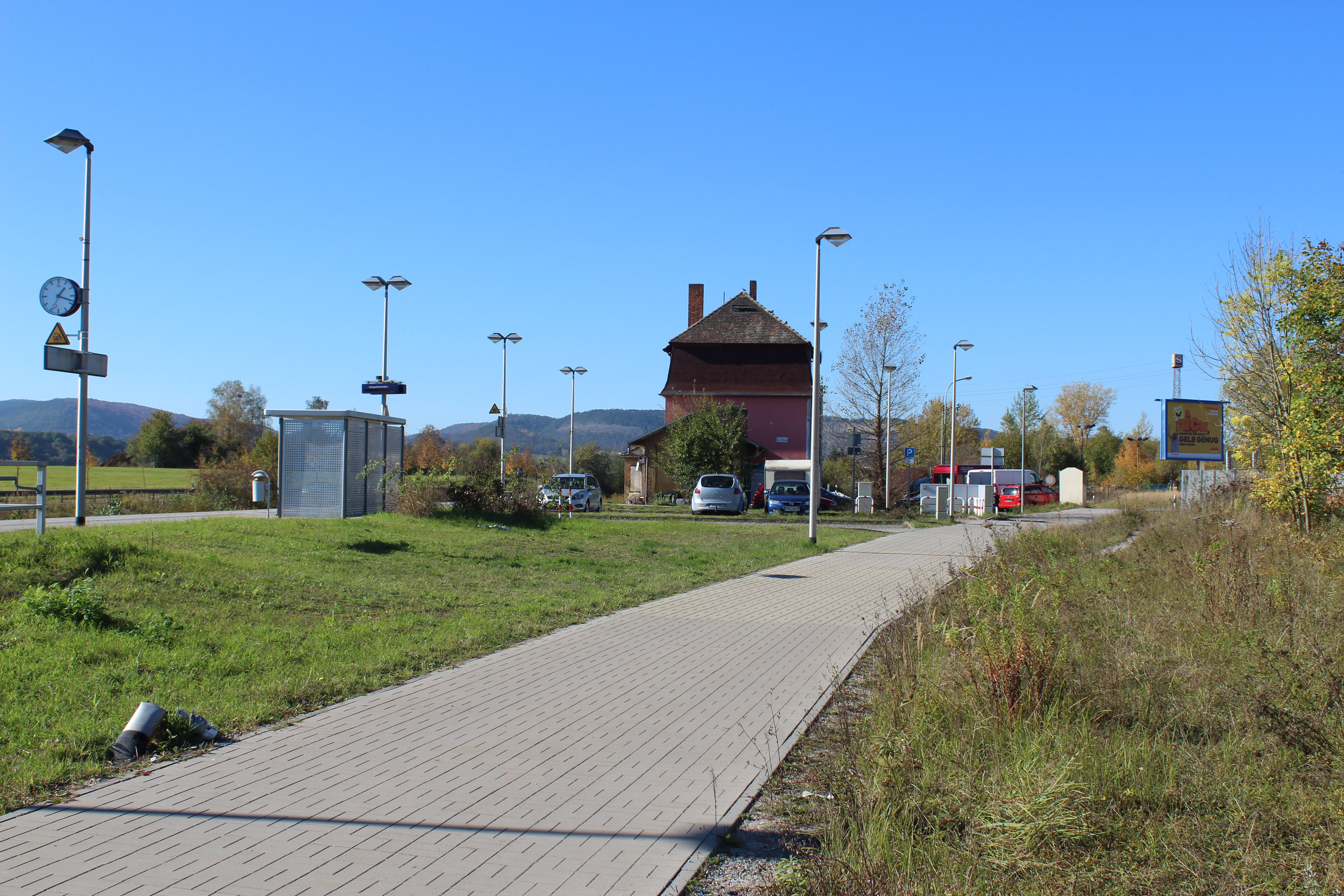 train station Neue Schenke, station building